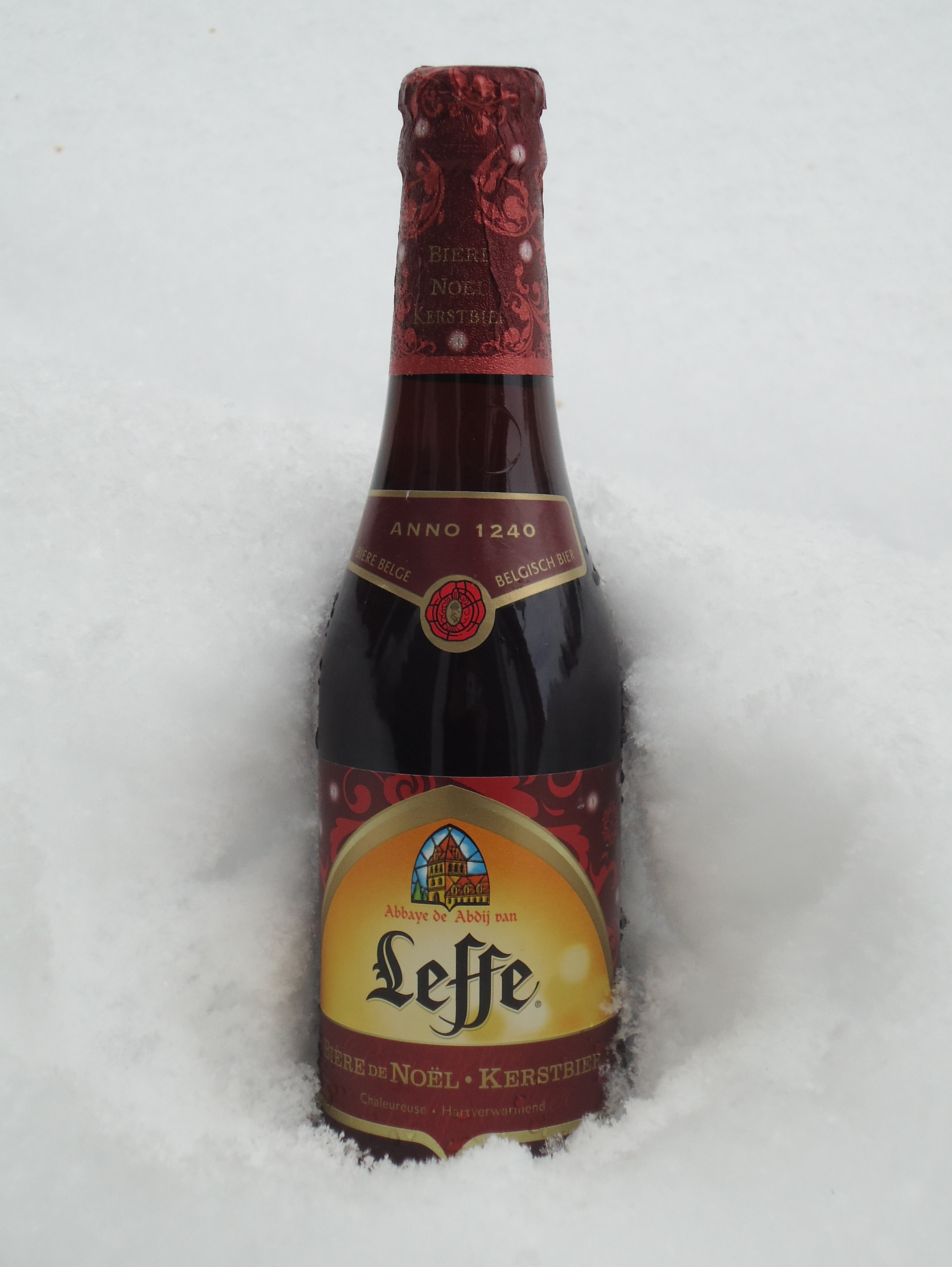 Leffe - biere de Noël